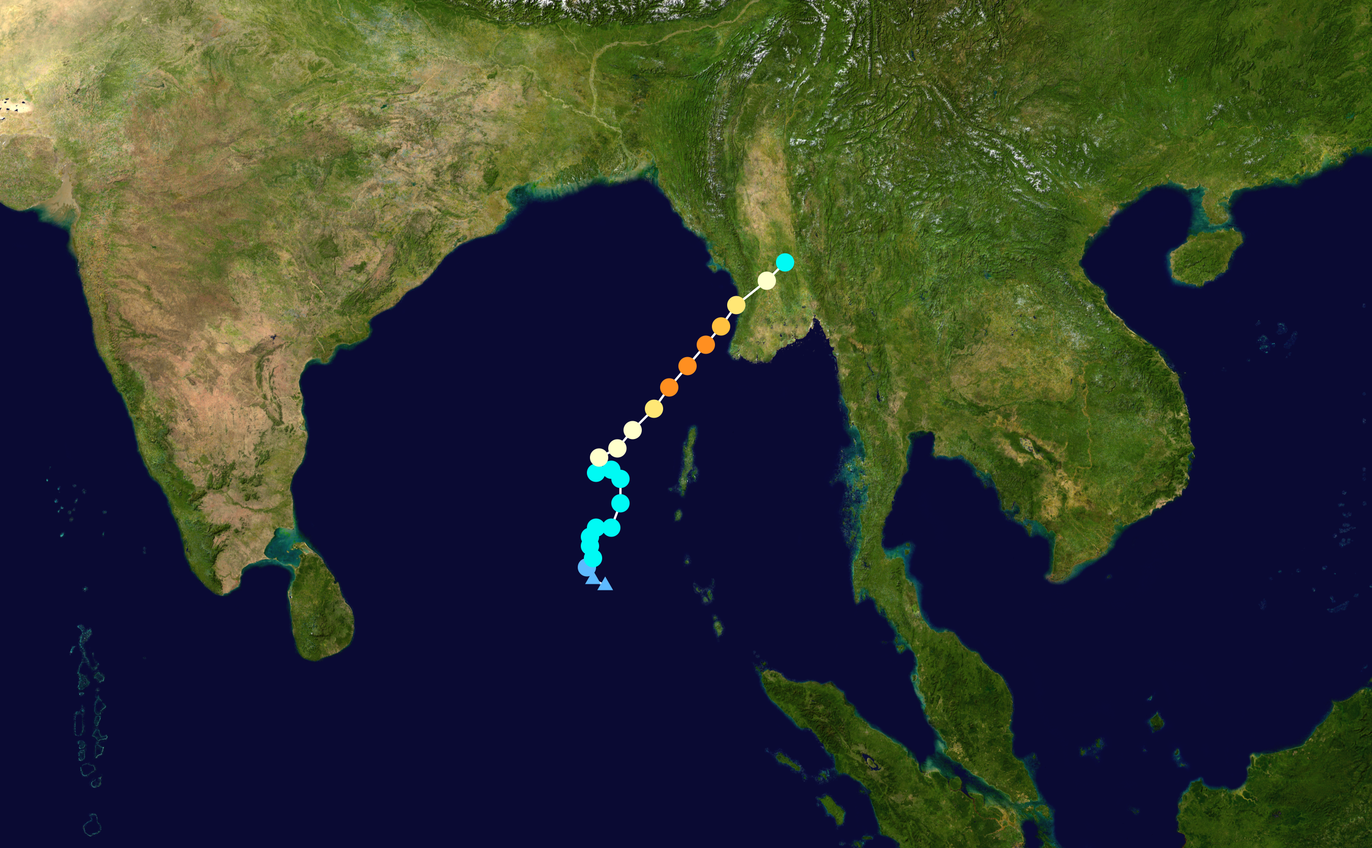 Track map of Extremely Severe Cyclonic Storm Mala of the 2006 North Indian Ocean cyclone season. The points show the location of the storm at 6-hour intervals. The colour represents the storm's maximum sustained wind speeds as classified in the Saffir–Simpson scale (see below), and the shape of the data points represent the nature of the storm, according to the legend below. Saffir–Simpson scale Tropical depression≤38 mph≤62 km/h Category 3111–129 mph178–208 km/h Tropical storm39–73 mph63–118 km/h Category 4130–156 mph209–251 km/h Category 174–95 mph119–153 km/h Category 5≥157 mph≥252 km/h Category 296–110 mph154–177 km/h Unknown Storm type Tropical cyclone Subtropical cyclone Extratropical cyclone / Remnant low / Tropical disturbance / Monsoon depression